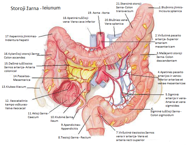 This is the large intestine , where can be dizenretias bacteries